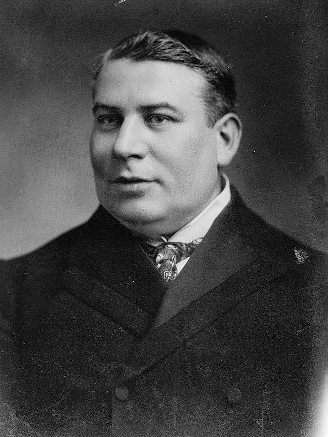 Bain News Service,, publisher. Sir W.J. Bull [1913 Jan.] 1 negative : glass ; 5 x 7 in. or smaller. Notes: Title from data provided by the Bain News Service on the negative. Date from corresponding card photograph issued by Elliott & Fry of London dated Jan. 6, 1913. Caption indicates that Bull might suceed Bonar Law as leader of the Conservatives in Parliament. Photo shows Sir William James Bull, 1st Baronet (1863-1931), a British solicitor and Conservative politician. (Source: Flickr Commons project, 2008) Forms part of: George Grantham Bain Collection (Library of Congress). Format: Glass negatives. Repository: Library of Congress, Prints and Photographs Division, Washington, D.C. 20540 USA, General information about the Bain Collection is available at Higher resolution image is available (Persistent URL): Call Number: LC-B2- 2639-4